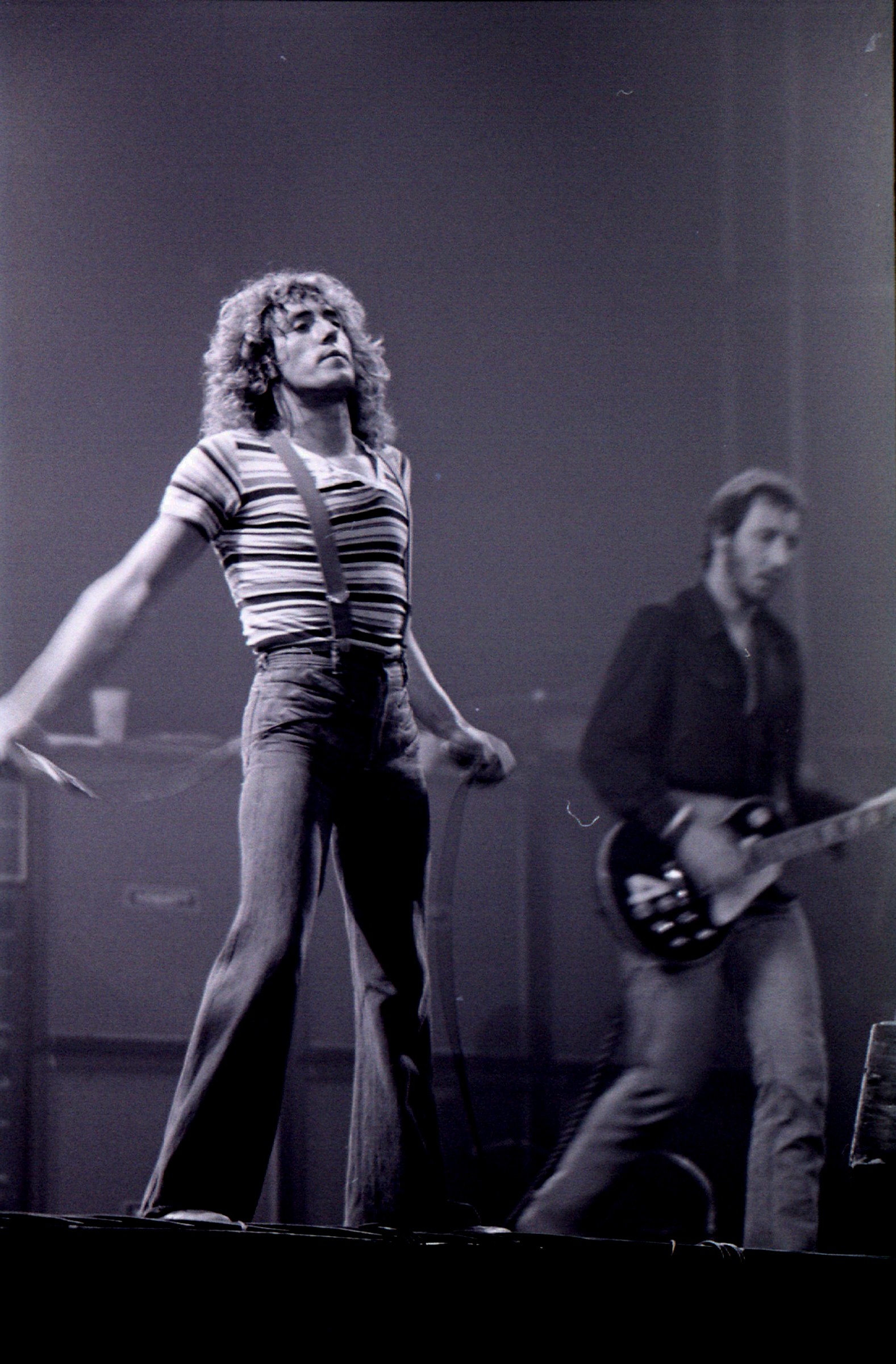 MLG, Toronto, Oct. 10, 1976